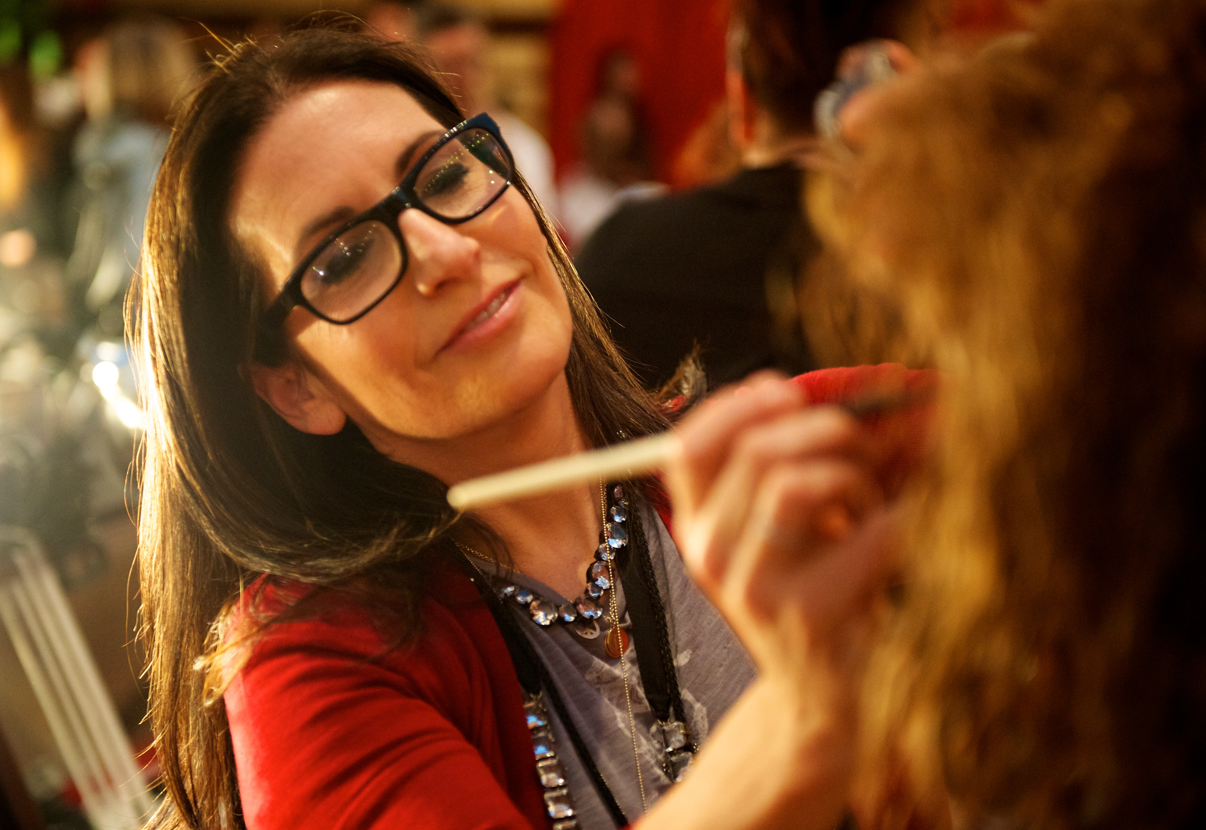 Bobbi Brown at The Heart Truth's Red Dress Collection 2010